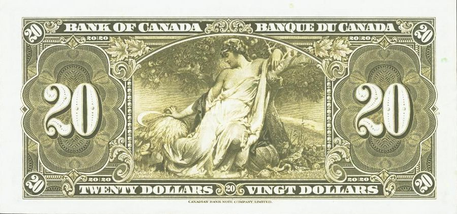 Bank of Canada $20 note, 1937, back